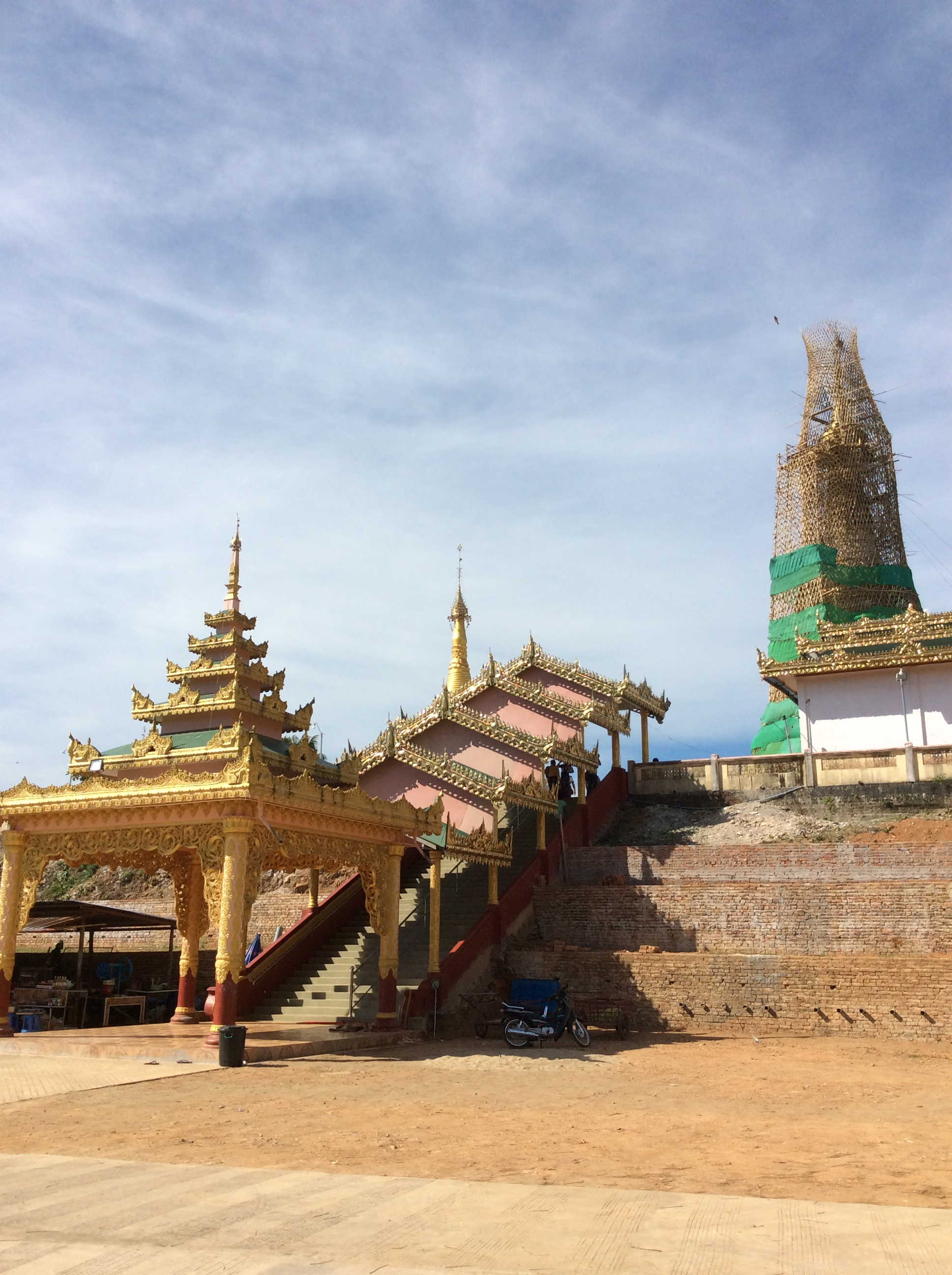 Shin Za Lon Pagoda, Myoe Haung Village, Dawei Township, Tanintharyi Region မြန်မာဘာသာ: ရှင်ဇလွန်စေတီ၊ မြို့ဟောင်းကျေးရွာ၊ ထားဝယ်မြို့နယ်၊ တနင်္သာရီတိုင်းဒေသကြီး